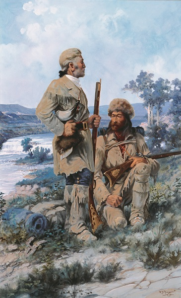 "Lewis at Black Eagle Falls" by Edgar Samuel Paxson, mural in lobby of Montana House of Representatives